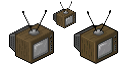 Demonstration of the 2xSaI interpolation, with nearest-neighbor scaling on the left for comparison.